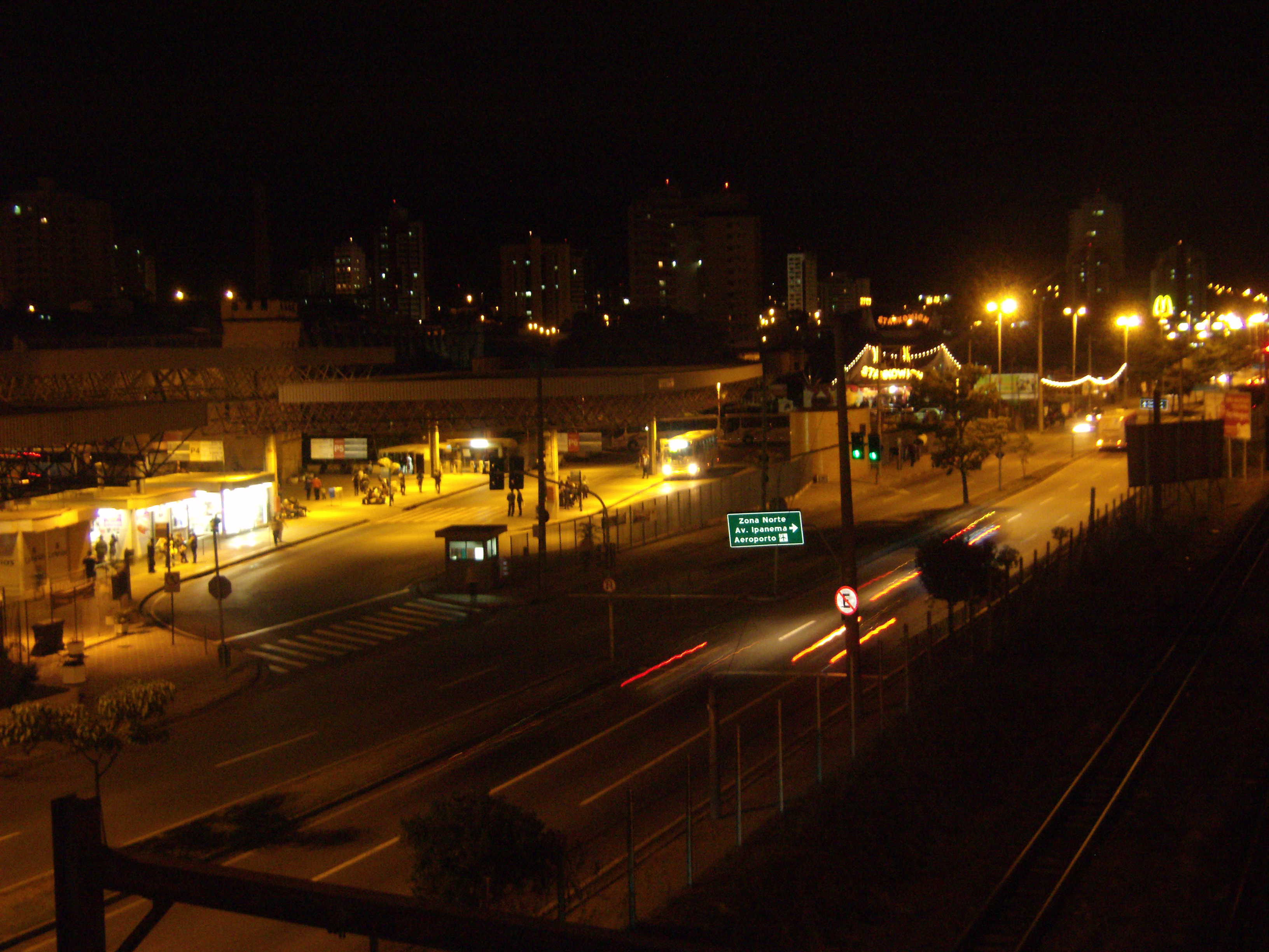 Avenue Dr. Afonso Vergueiro, Sorocaba, Brazil.